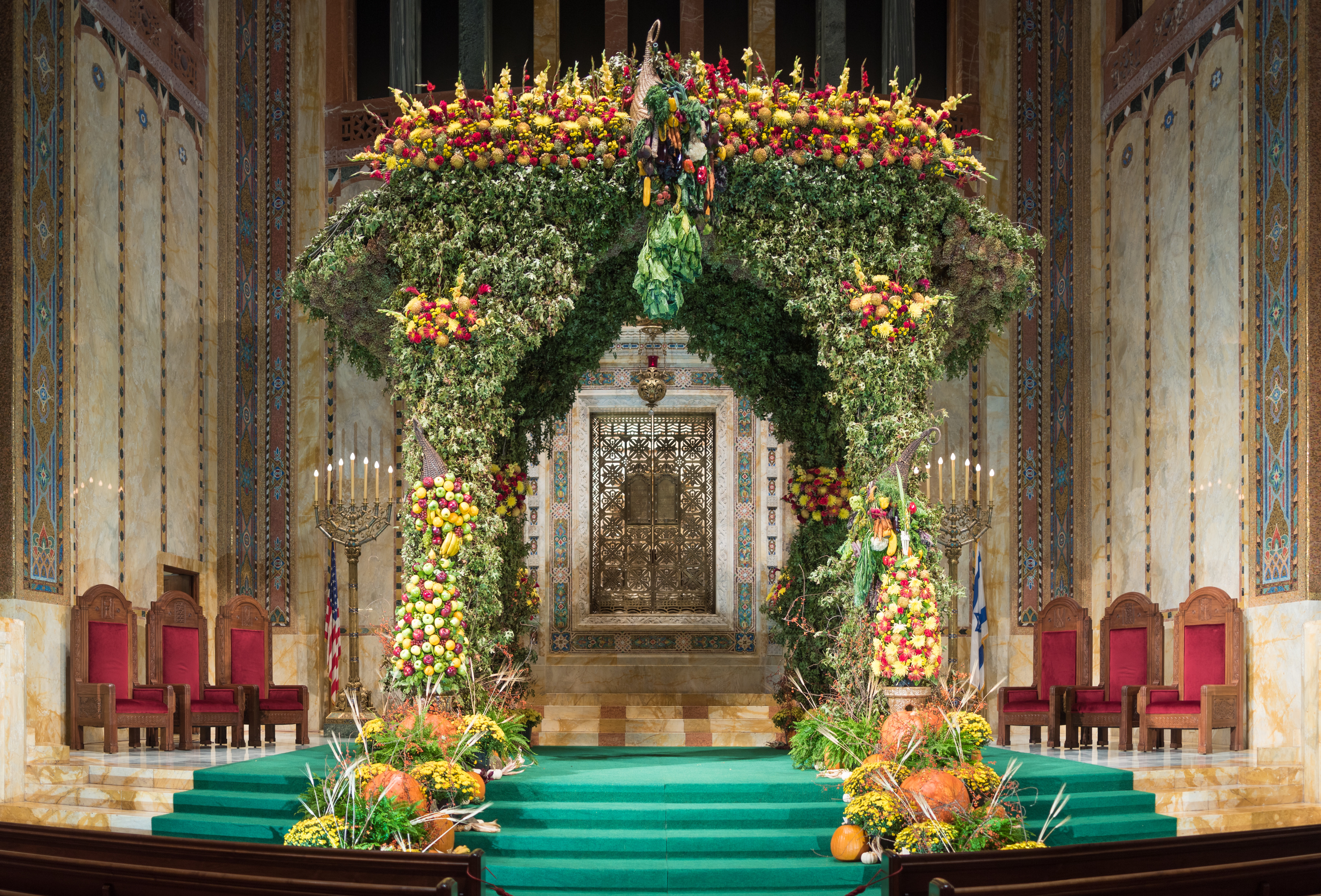 A sukkah during sukkot at Temple Emanu-El in Manhattan, New York. Taken during Open House New York Weekend.